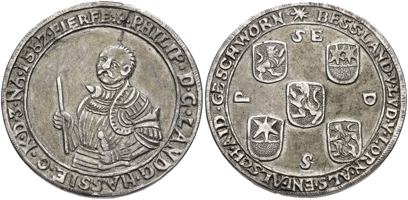 GERMANY, Hessen (Landgrafschaft). Philipp I der Großmütige (the Magnanimous). Landgrave, 1509-1567. AR Taler Medal (40mm, 27.6 g, 6h). Dated 1552. Posthumous cast, 17th century or later. Armored half-length figure facing slightly left, holding scepter and sword pommel / Five coats-of-arms; SE-D-P-S in angles. Davenport 9721; Schütz 448. VF, cast and chased. Rare.